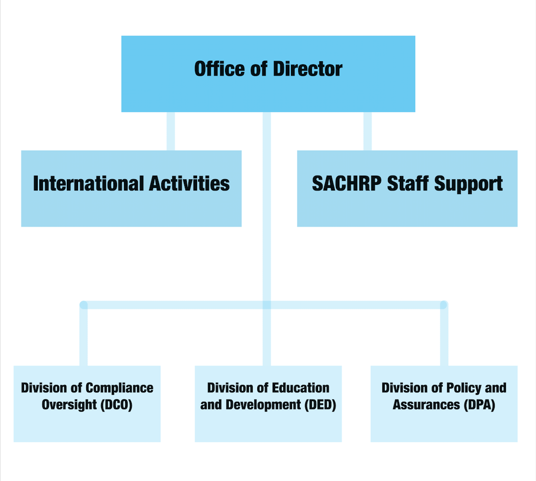 The Office of Human Research Protections Organization Structure cropped